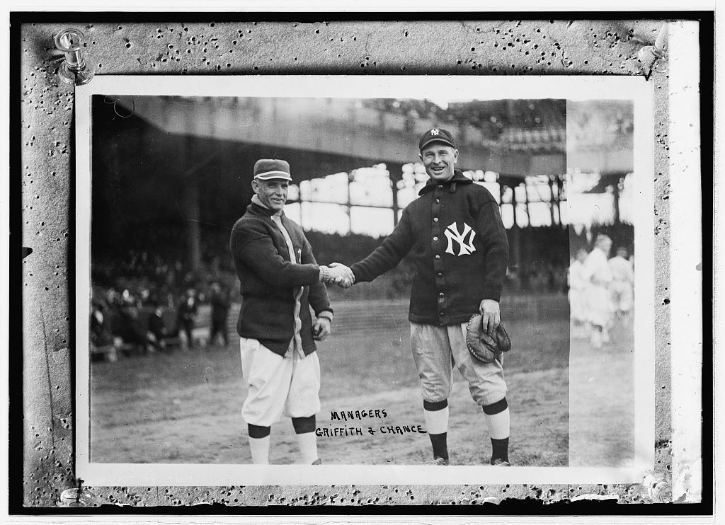 Title: Managers Griffith & Chance Abstract/medium: 1 negative : glass ; 5 x 7 in. or smaller